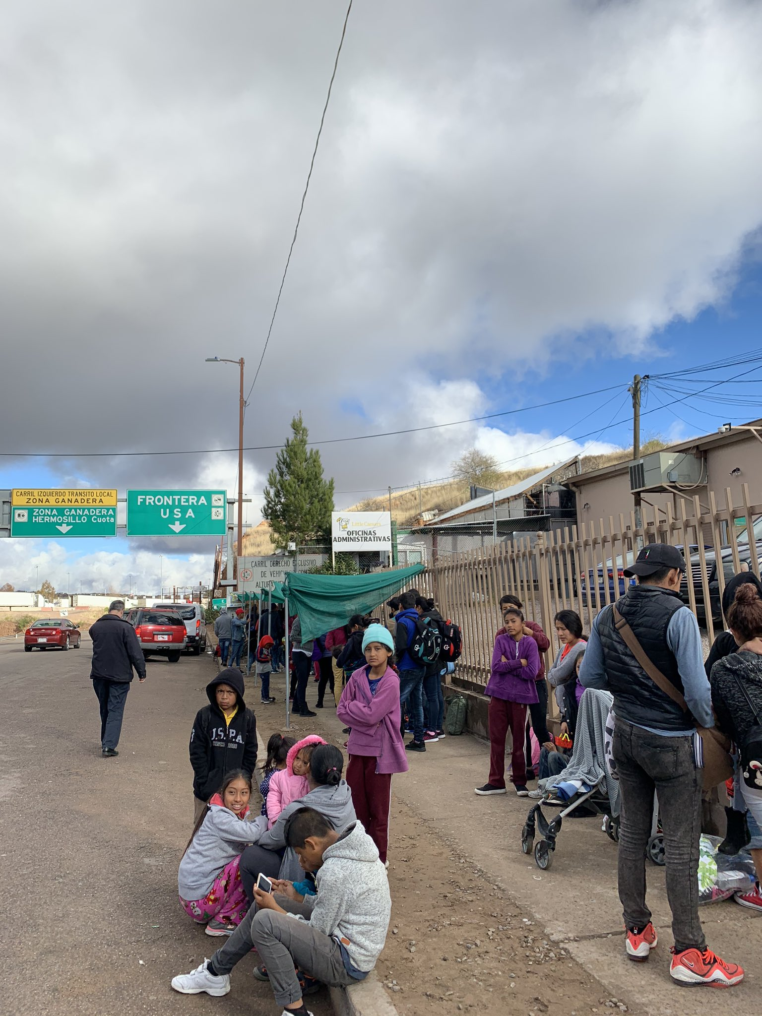 Mutiny of Kino Border Initiative